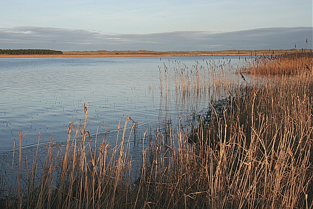 Loch of Strathbeg Looking east along the north shore of the peninsula towards the sand dunes which separate the loch from the sea.